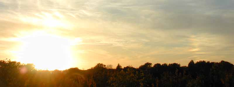 OK, so its a poor sundog, but it's the best I have at the moment... Taken at 4pm on the 15th of October 2003 in Coton by User:William M. Connolley. The sun is the big yellow/white blob on the left; the sundog is the hard-to-see rainbow patch off to the right.